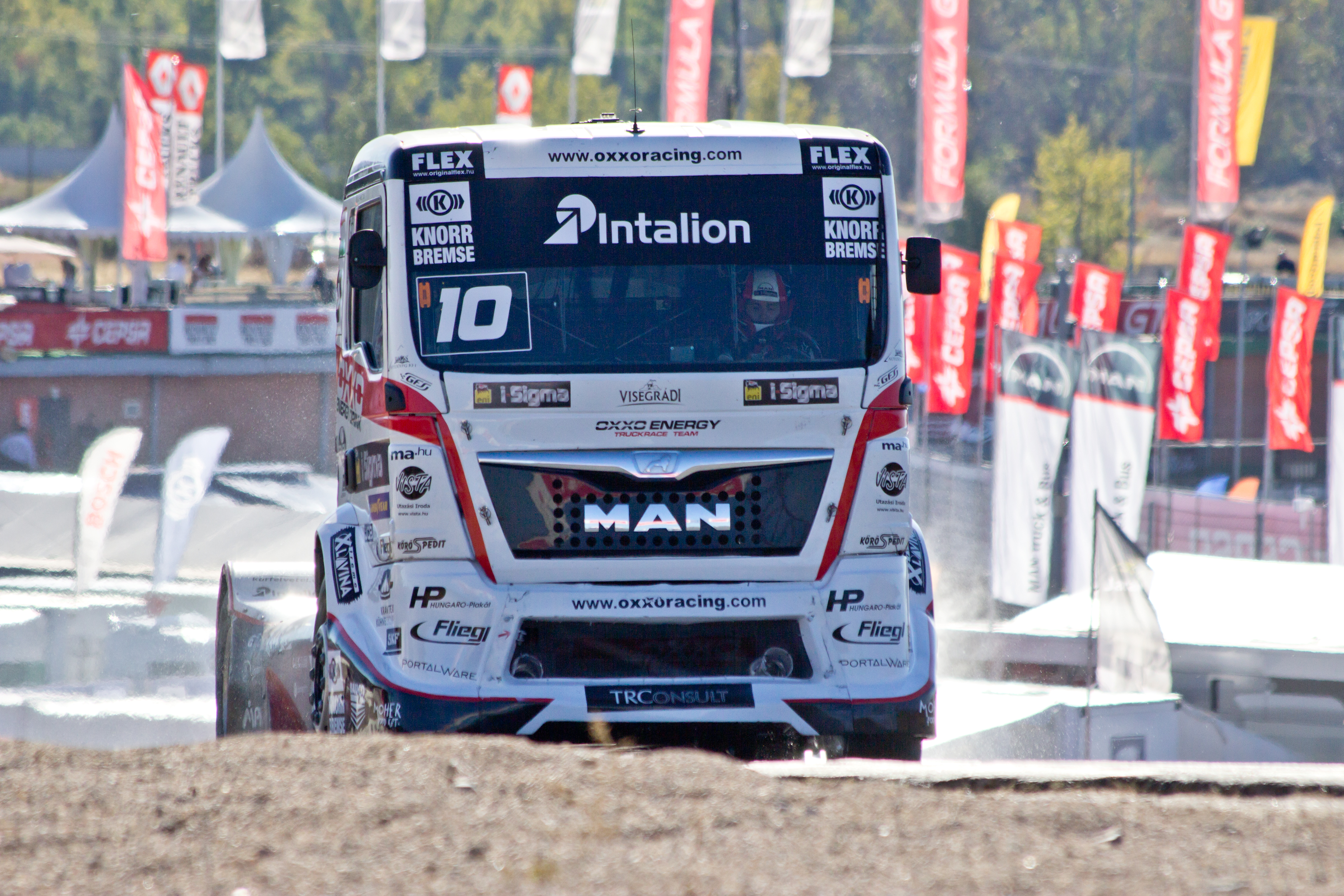 Truck pilot Norbert Kiss at the Spain Truck GP 2013.